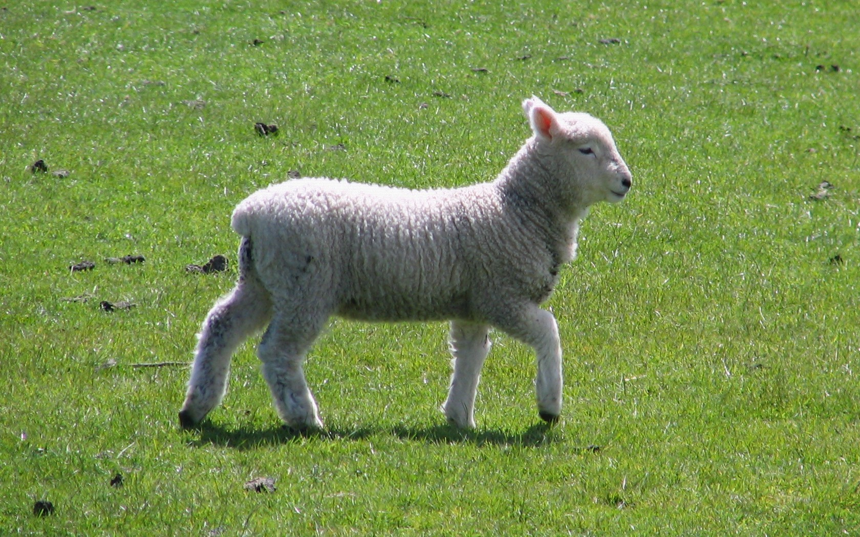 Lamb near Port Chalmers, New Zealand